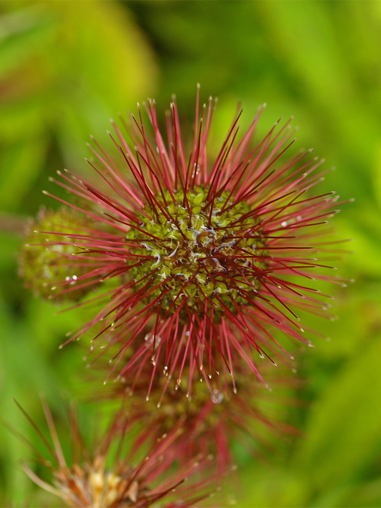 Acaena ovalifolia Two-spined Acaena Gilllies Hill 8-10-08Gilllies Hill 8-10-08